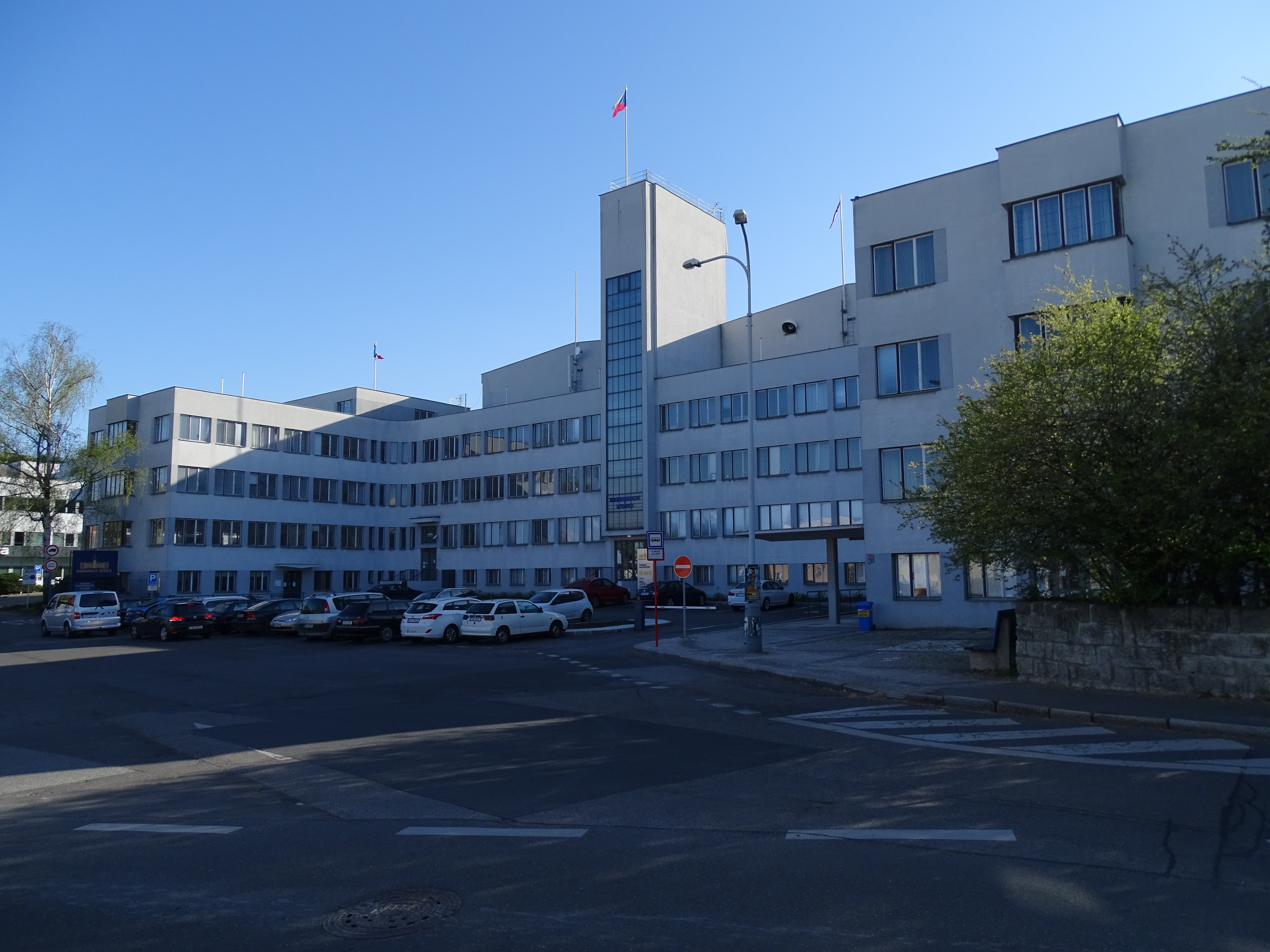 Prague-Hlubočepy, Czech Republic. Barrandov, Kříženeckého náměstí 322/5, film studios.